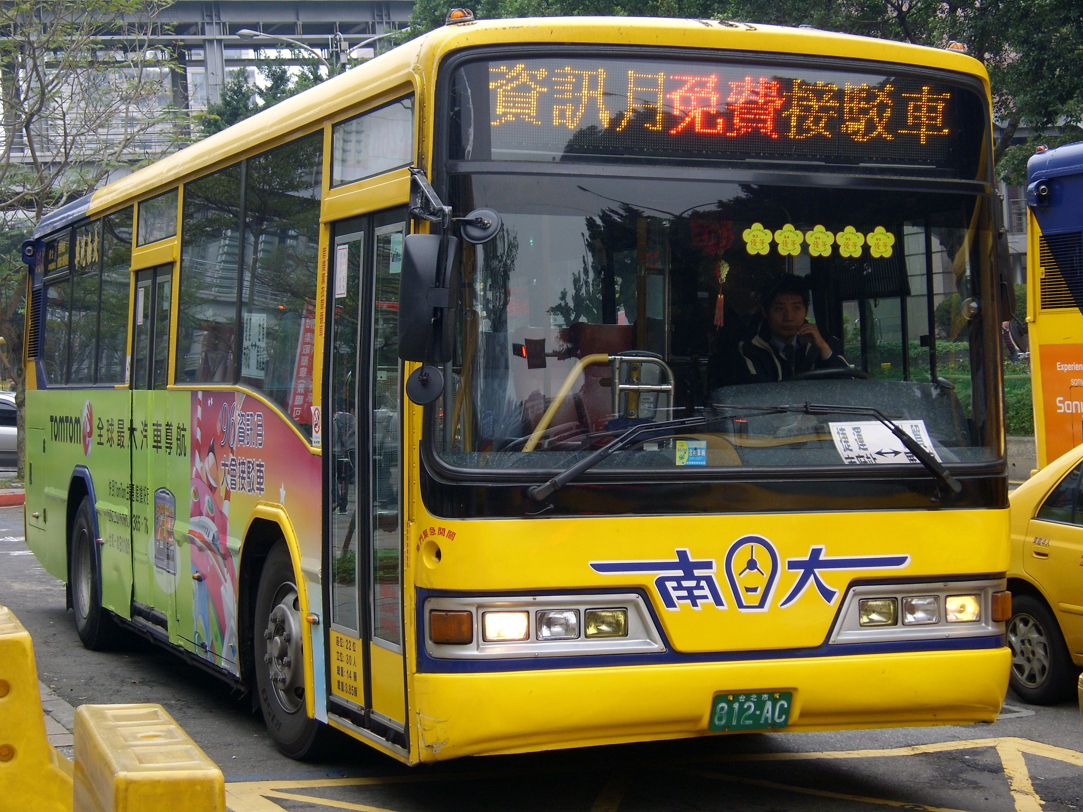 2007 Taipei IT Month: Shuttle Bus by Da-nan Bus Co., Ltd.